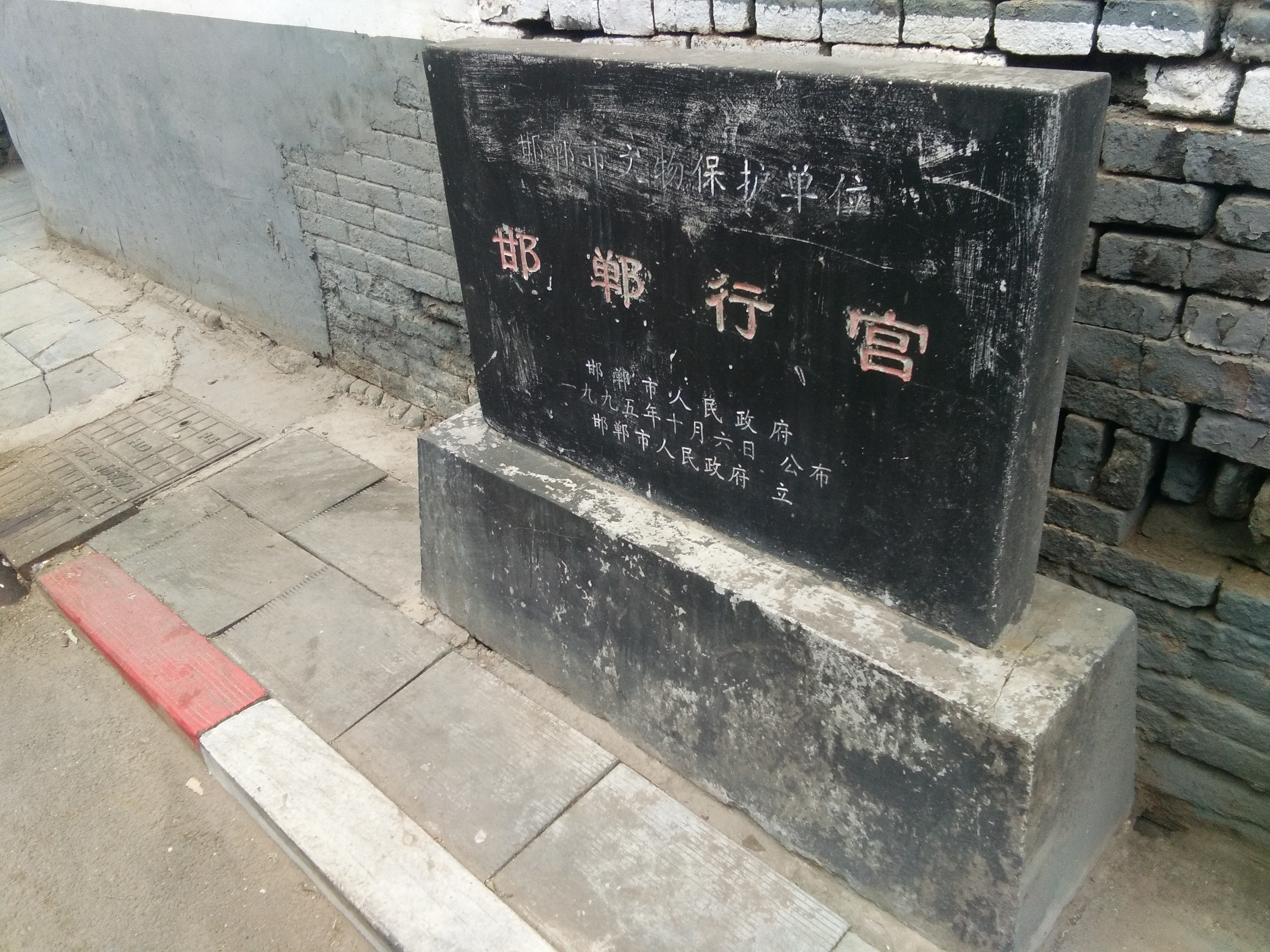 Cixi Handan palace is located in Handan City, Hebei Province, the original street in Handan Office on the north side of the hospital, built in 1901. Twenty six years Guangxu (1900), the Eight-Power Allied forces captured Beijing, Empress Dowager Cixi and Emperor Guangxu escape. The following year, after the signing of the Treaty, the Empress Dowager Cixi and Emperor Guangxu back to Luan, Handan palace for the Empress built one of the palace. According to "Handan County" records, in 1901 November Empress in Handan Handan.